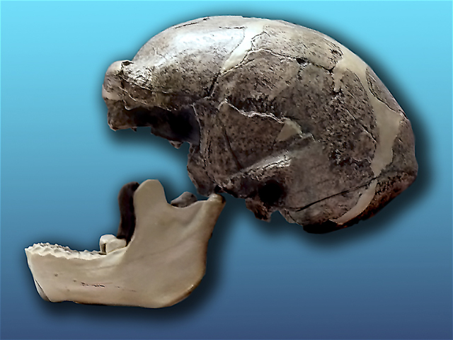 First cranium of Homo erectus pekinensis (Sinathropus pekinensis) discovered in 1929 in Zhoukoudian, today missing (replica)